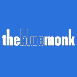 Logo for The Blue Monk, a defunct bar, music venue, and restaurant located in Portland, Oregon, in the United States. This logo was used by a now defunct business.